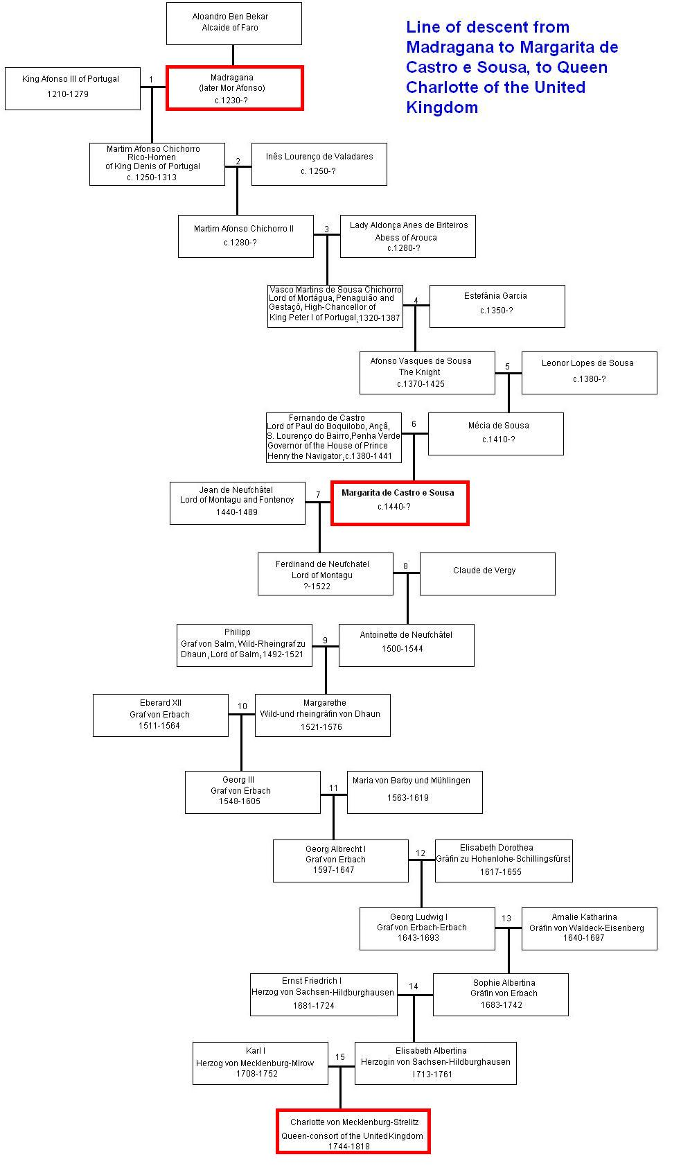 Line of descent from Madragana to Margarita de Castro e Souza, to Queen Charlotte of Mecklenburg-Strelitz